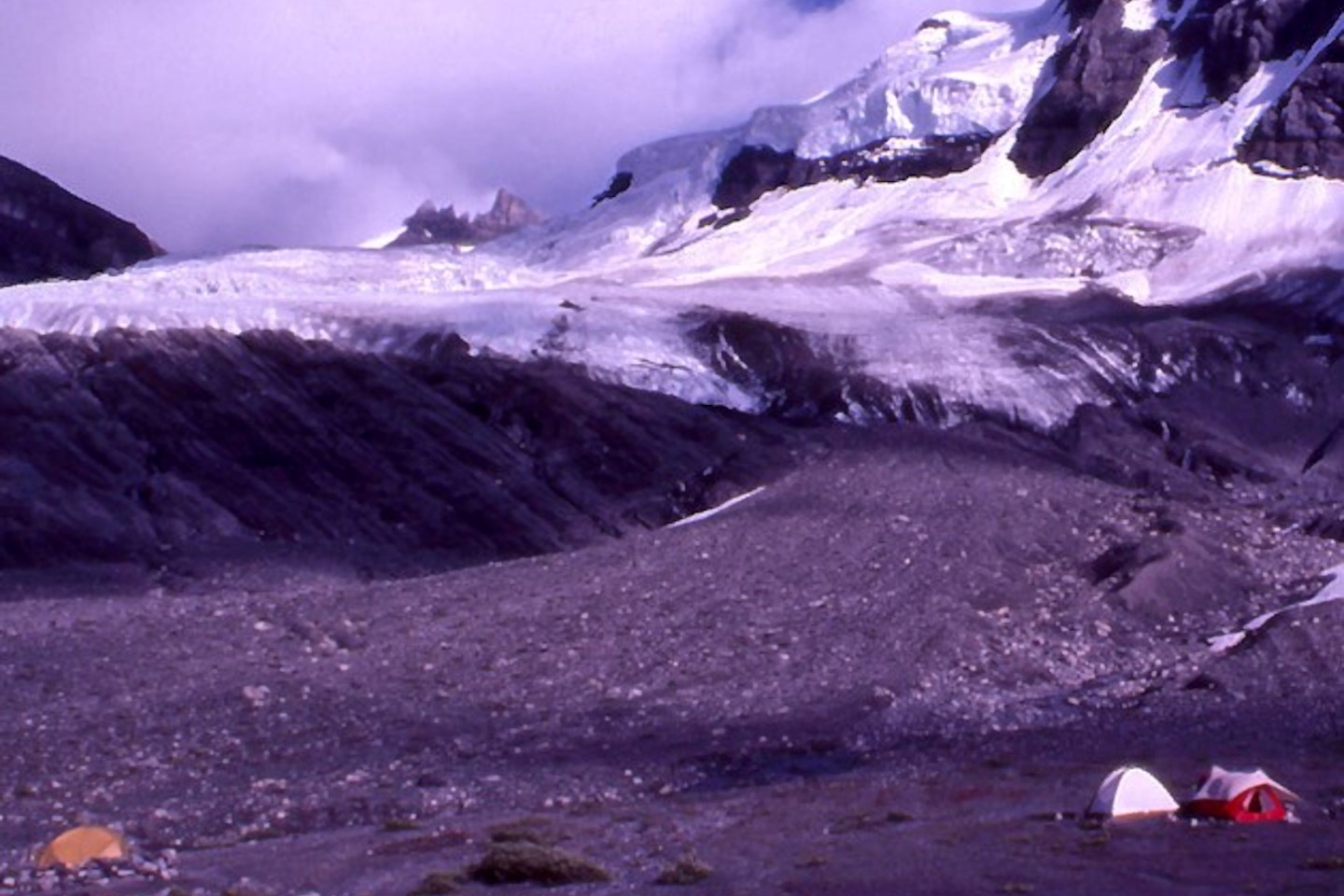 Camping as part of mountaineering; this Mt. Forbes W:Alberta bivy site at the toe of the Forbes' North Glacier put us within a day's climb of the summit (and return to the bivy site). There are no campgrounds here, and depending on the country, none in many mountaineering situations. So in Canada, for example, other than a minimal annual fee for all national parks, mountaineering can be free of camping or related fees. There are, however, ACC huts in some locations that a user can choose to stay in, for a cost.